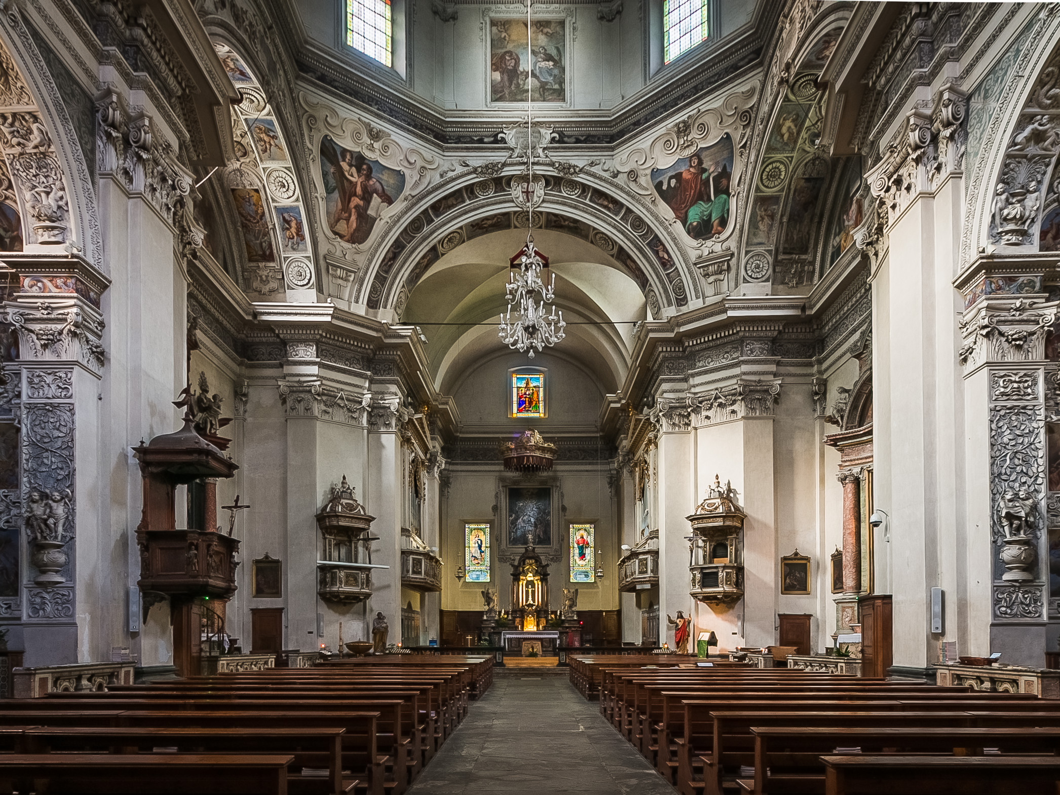 Grosio; San Giuseppe; church interior